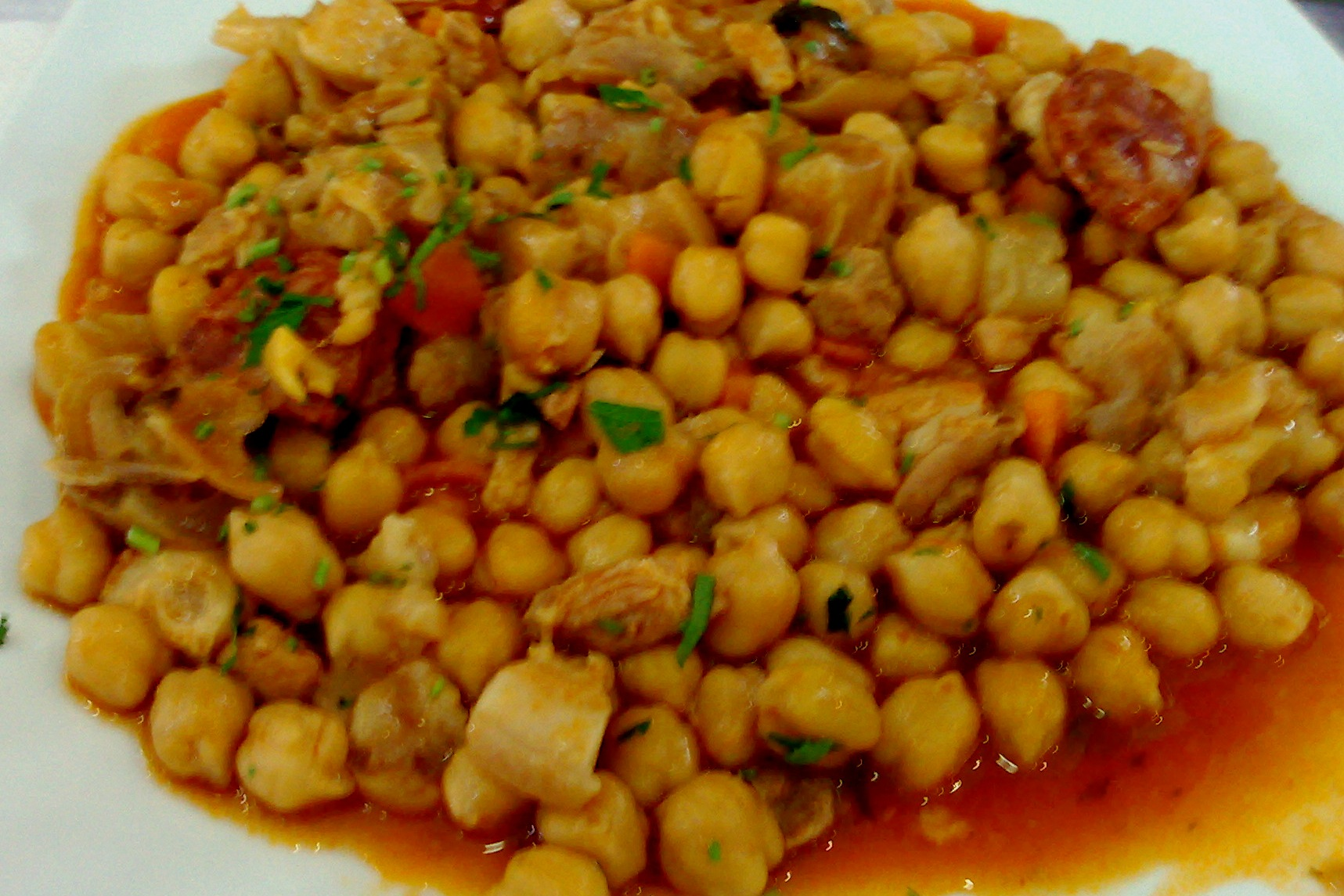 Mão de vaca com grão, a typical portuguese dish made with chickpeas and calf's foot.